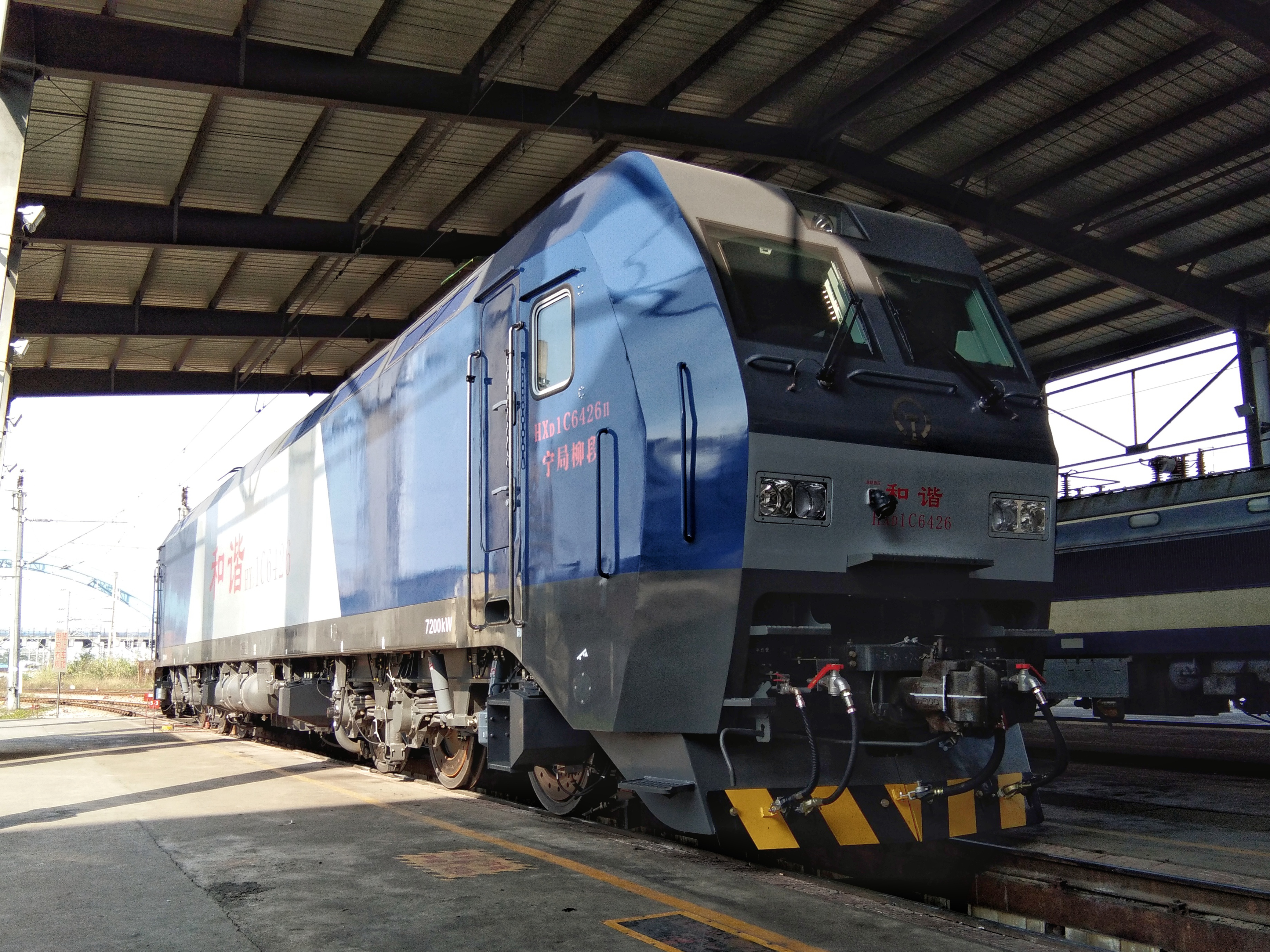 HXD1C-6426 in Liuzhou Locomotive Depot, Nanning Railway Bureau, 4th November, 2017.